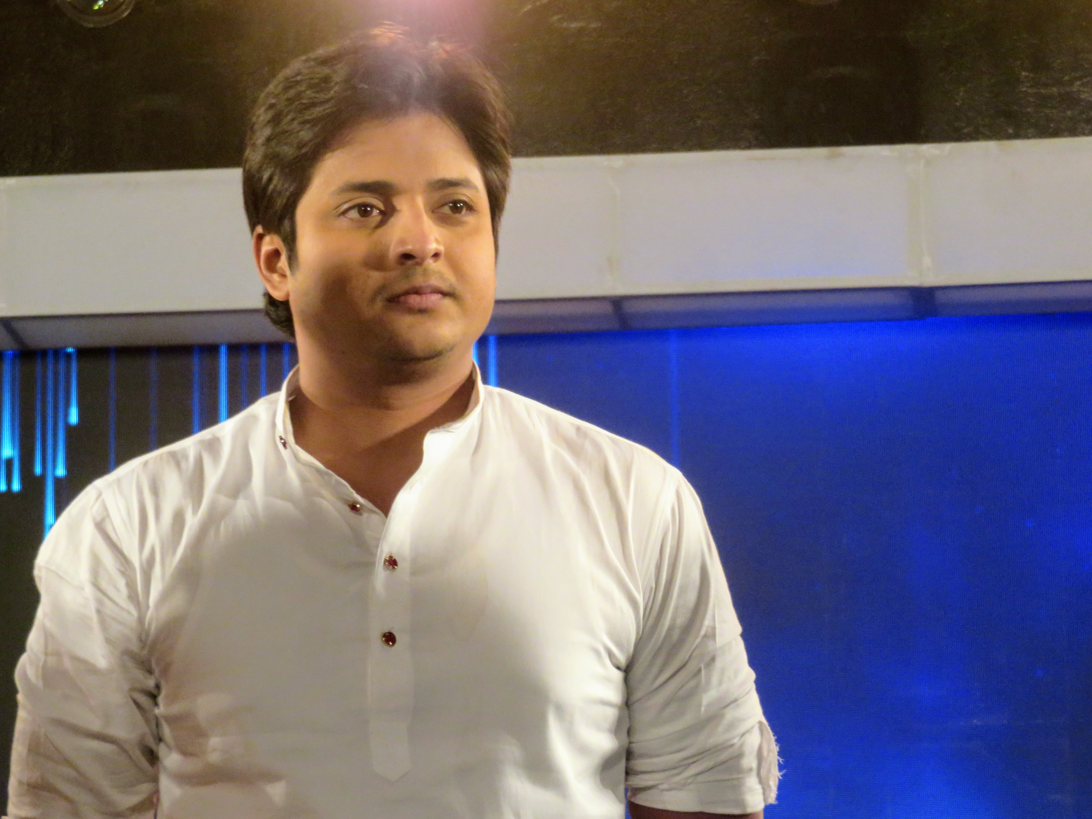 Ollywood actor babusan Mohanty ଓଡ଼ିଆ: ଓଲିଉଡ଼ କଳାକାର ବାବୁସାନ ମହାନ୍ତି